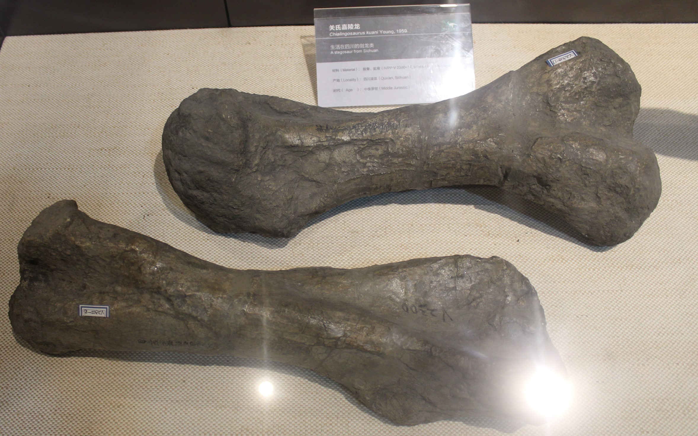 Femur and humerus (IVPP V2300-17) of Chialingosaurus kuani on display at the Paleozoological Museum of China.